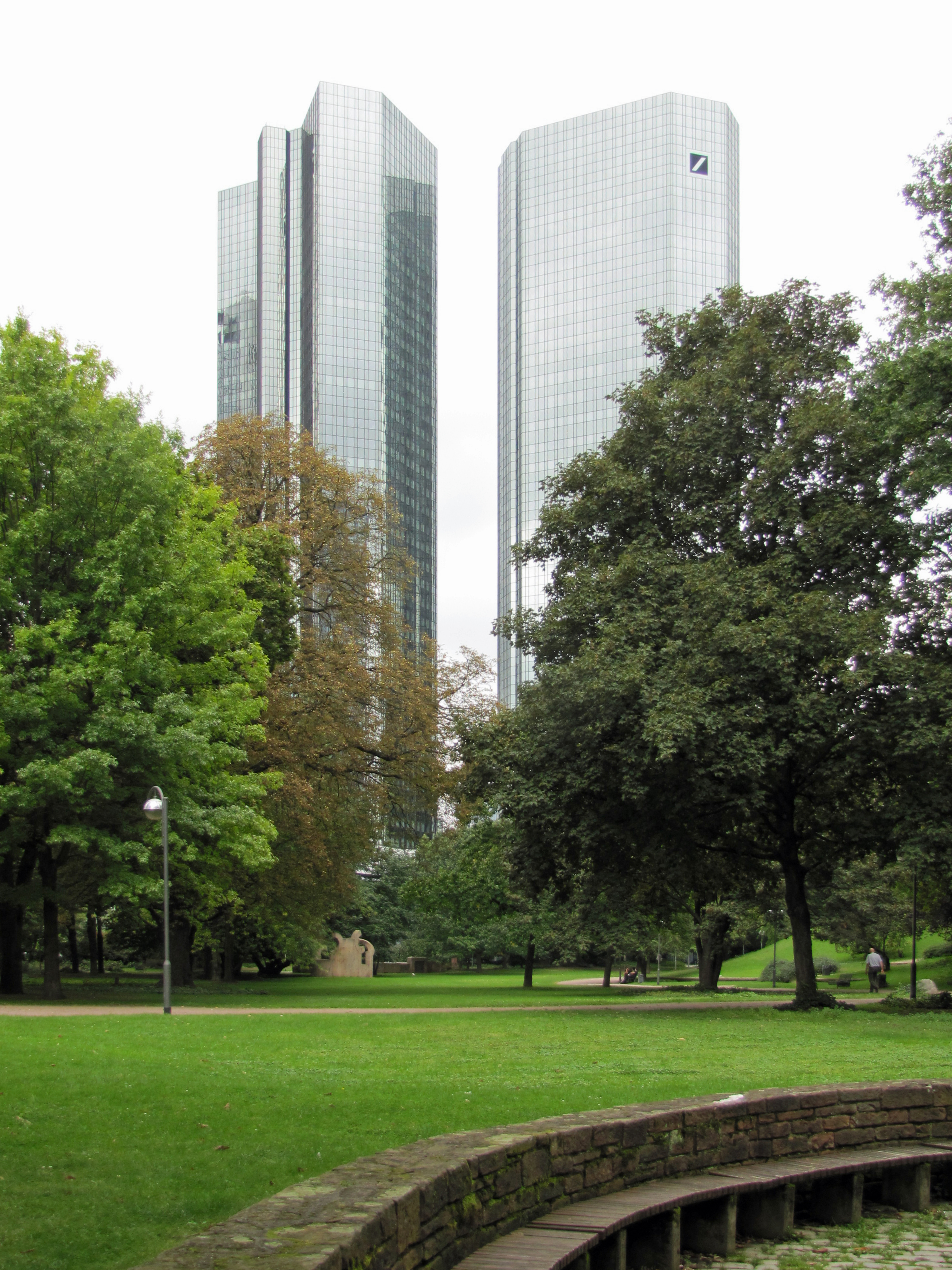 Deutsche Bank view from Taunusanlage, 2011 in Frankfurt am Main, Germany.